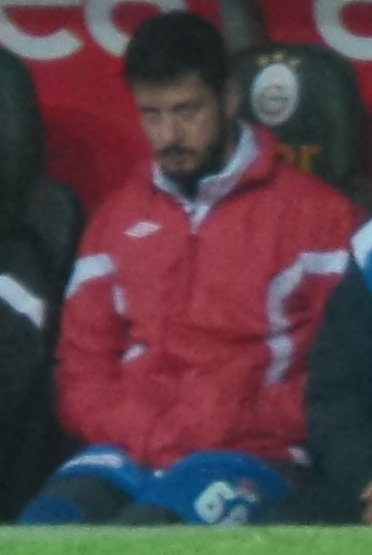 Tolga